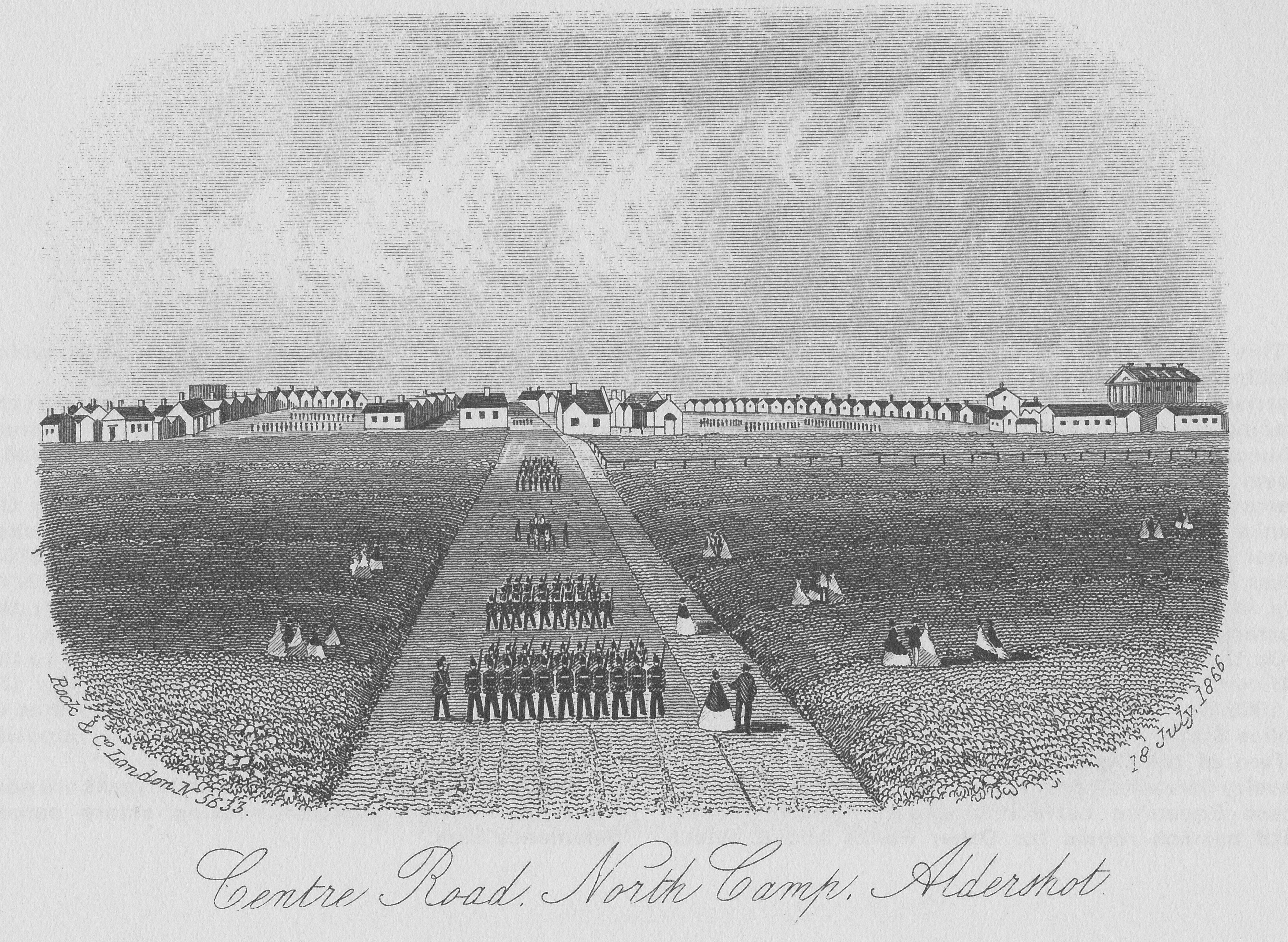 Print of North Camp in Aldershot Garrison in Hampshire in 1866